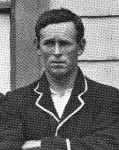 Photograph of Joe Bennett, extracted from photograph of New Zealand cricket team in March 1910